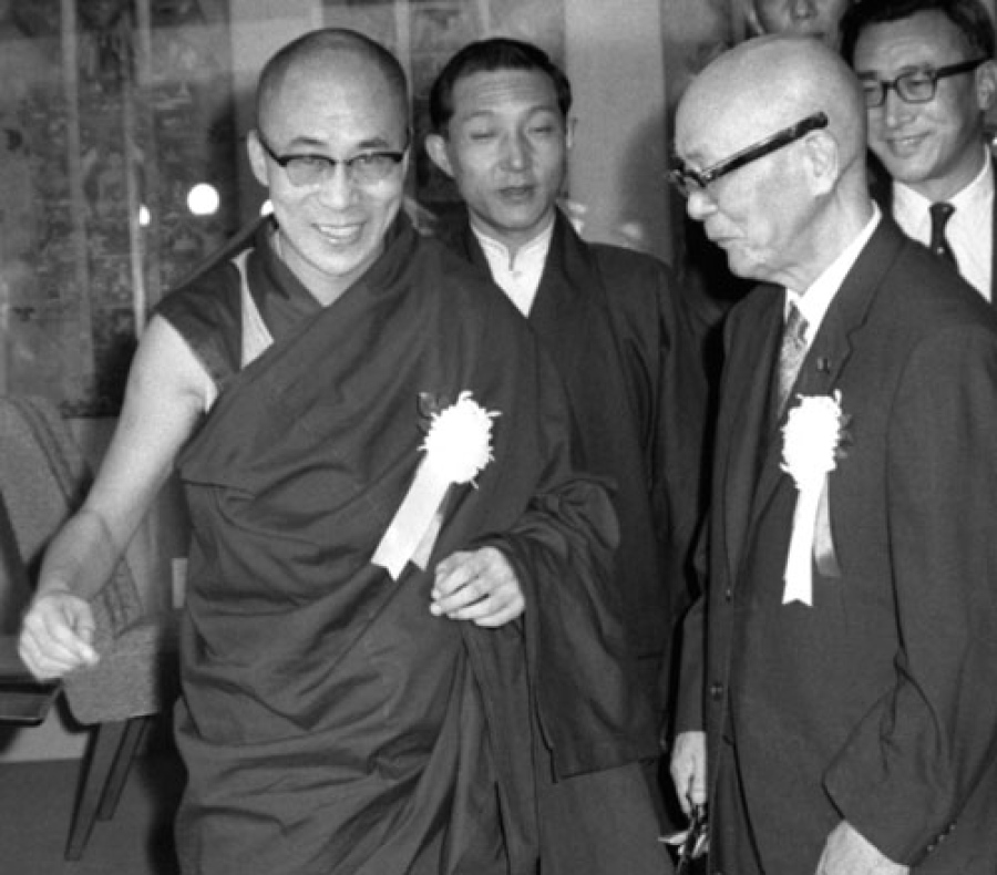 The Dalai Lama opens art exhibit in Tokyo, 1967